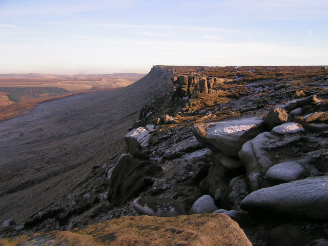 Kinder Scout: the northern edge. Looking eastwards along the edge towards Fairbrook Naze (not visible); the small side valleys of Upper and Nether Red Brook can be seen descending the steep hillside (to the left of this picture) into the Ashop valley. The conifers at the rear left are part of Snake Woodlands, through which the A57 Snake Pass road passes.